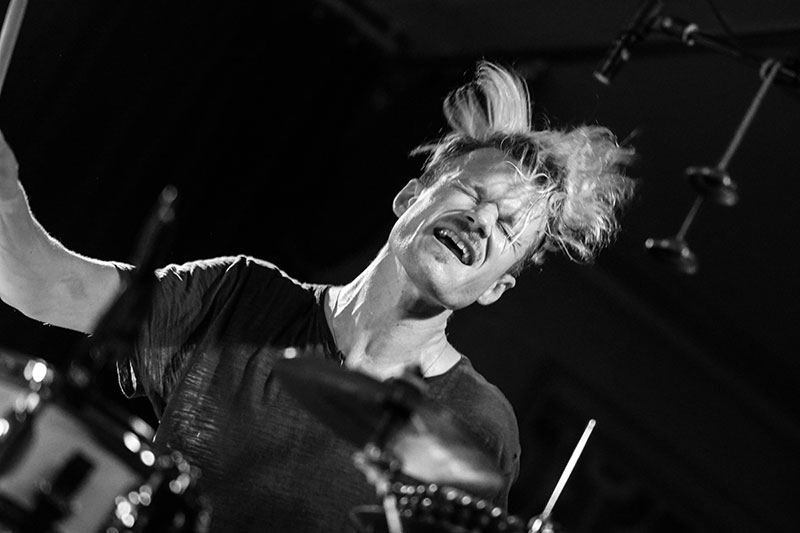 Anton Eger performing with PHRONESIS (Jasper Højby (b) and Ivo Neame (p)) in Aarhus, Denmark 2018